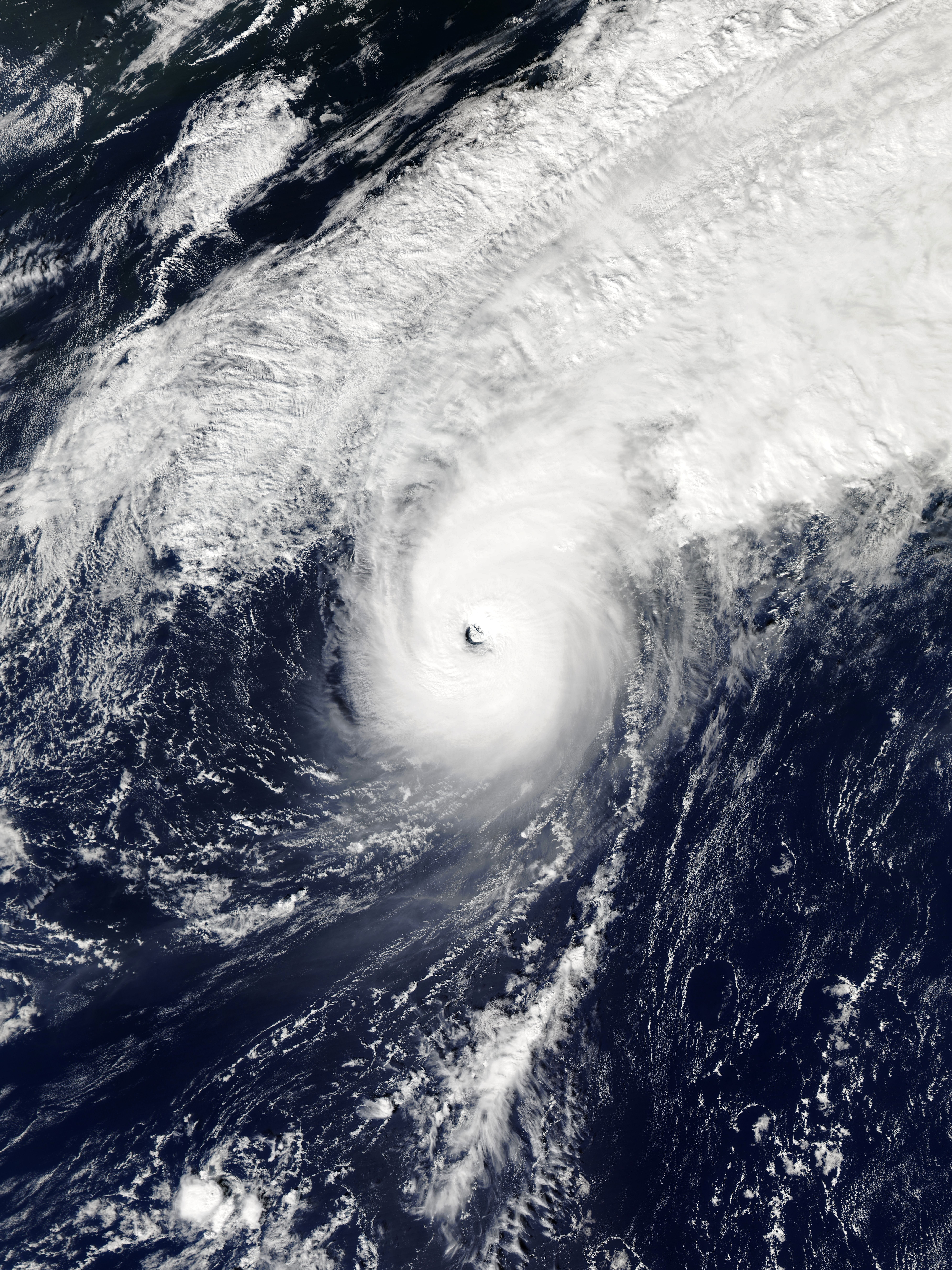 Typhoon Songda shortly after peak intensity southeast of Japan on October 12, 2016.